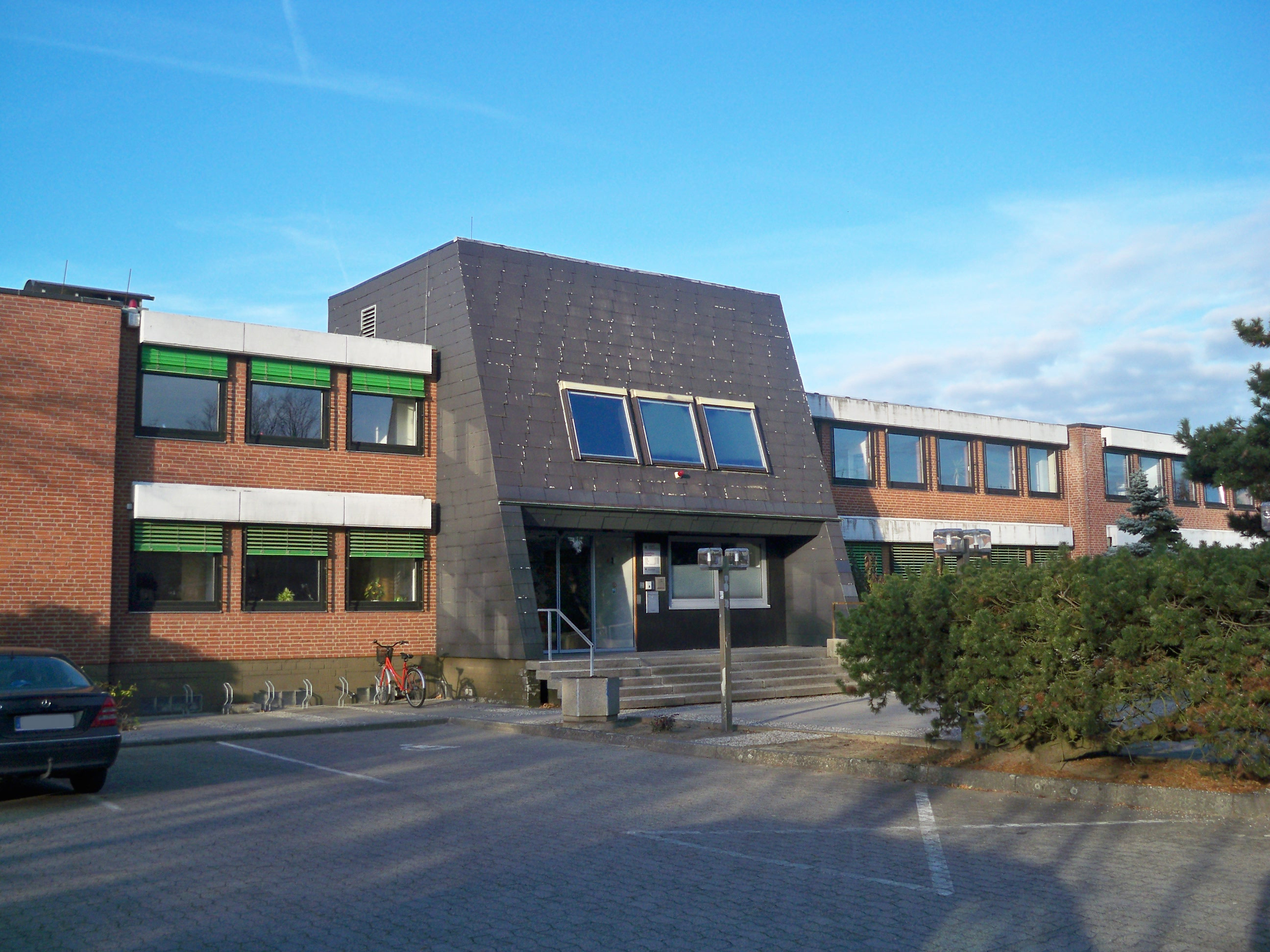 Brome, Lower Saxony, city hall as seen from the street